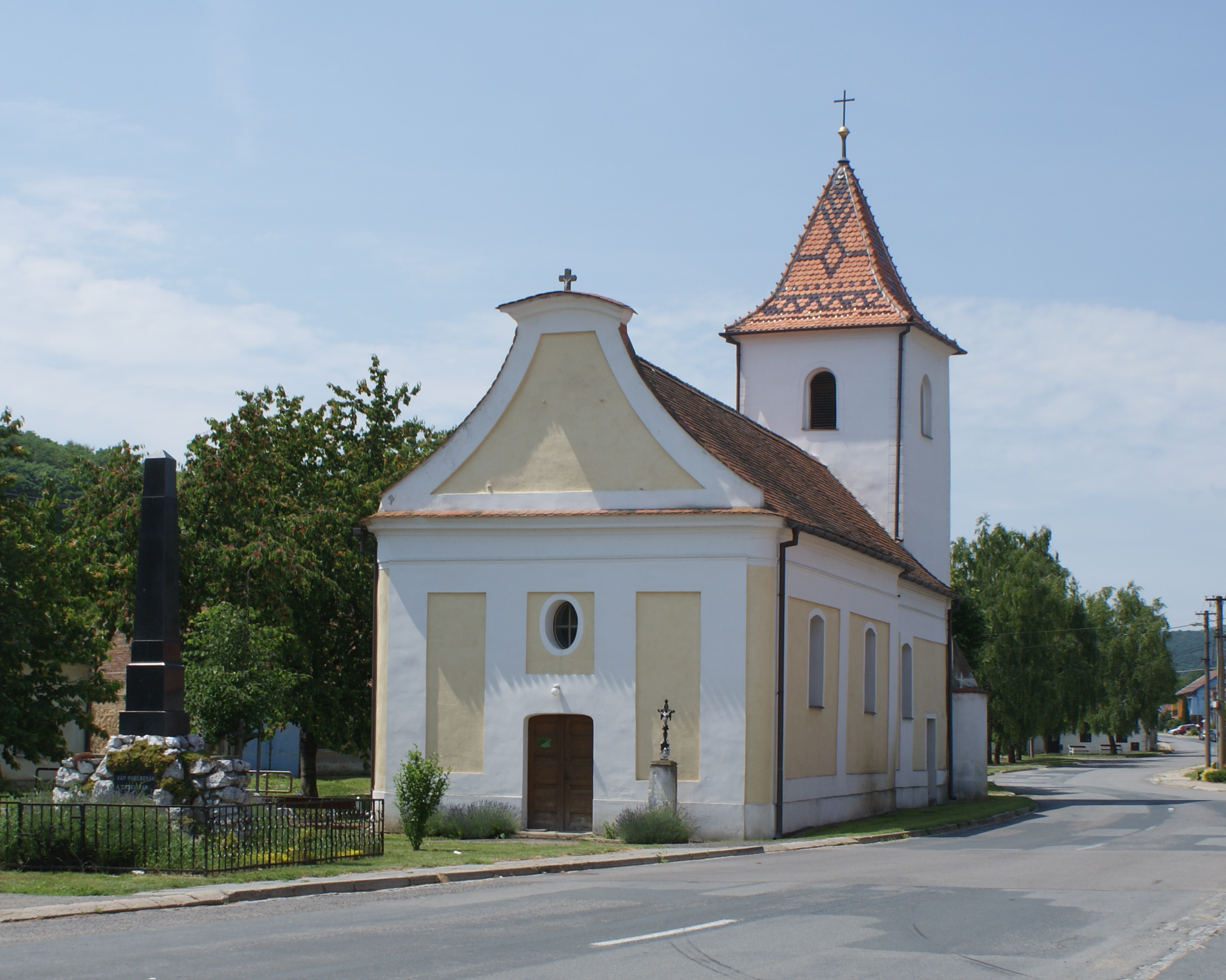 Milovice, a village in Břeclav District, Czech Republic, church of St Oswald.